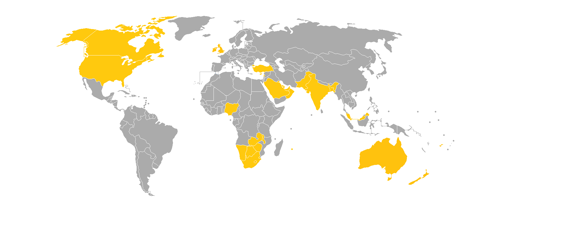 Nando's locations worldwide